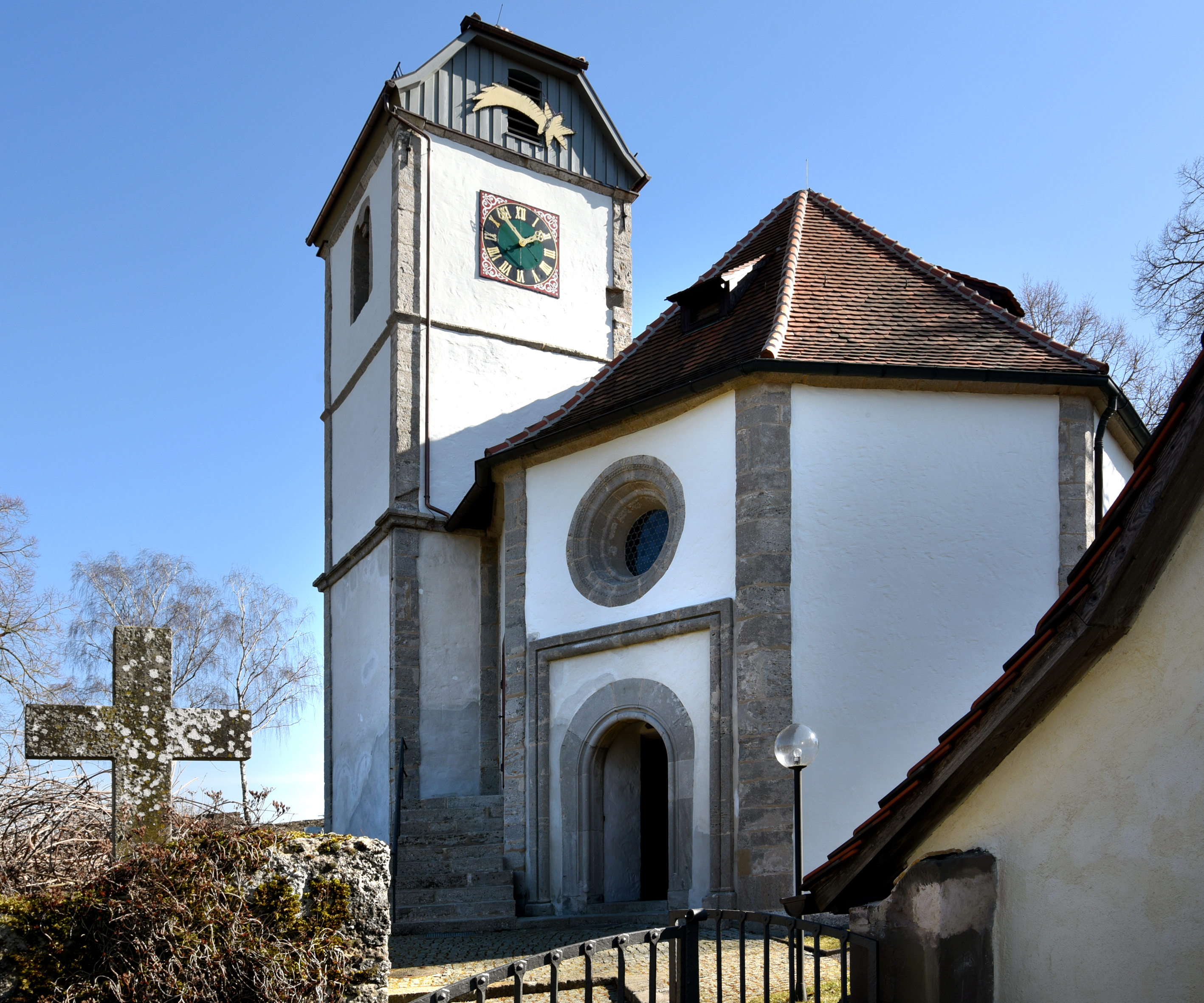 Say subjekt, wich soon became 800 years Chapell of St. Ulrich.